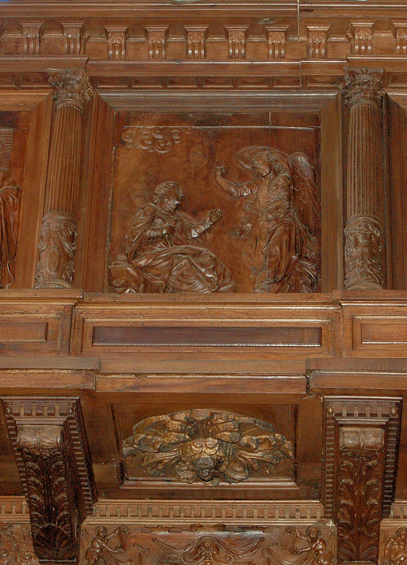 Anunciación a Santa Aldara da concepción de San Rosendo no coro lígneo da catedral de Santiago de Compostela, hoxe no mosteiro de San Martiño Pinario